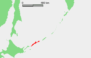 Location of Iturup Island (Итуруп / 択捉島), Kuril Islands, Russia